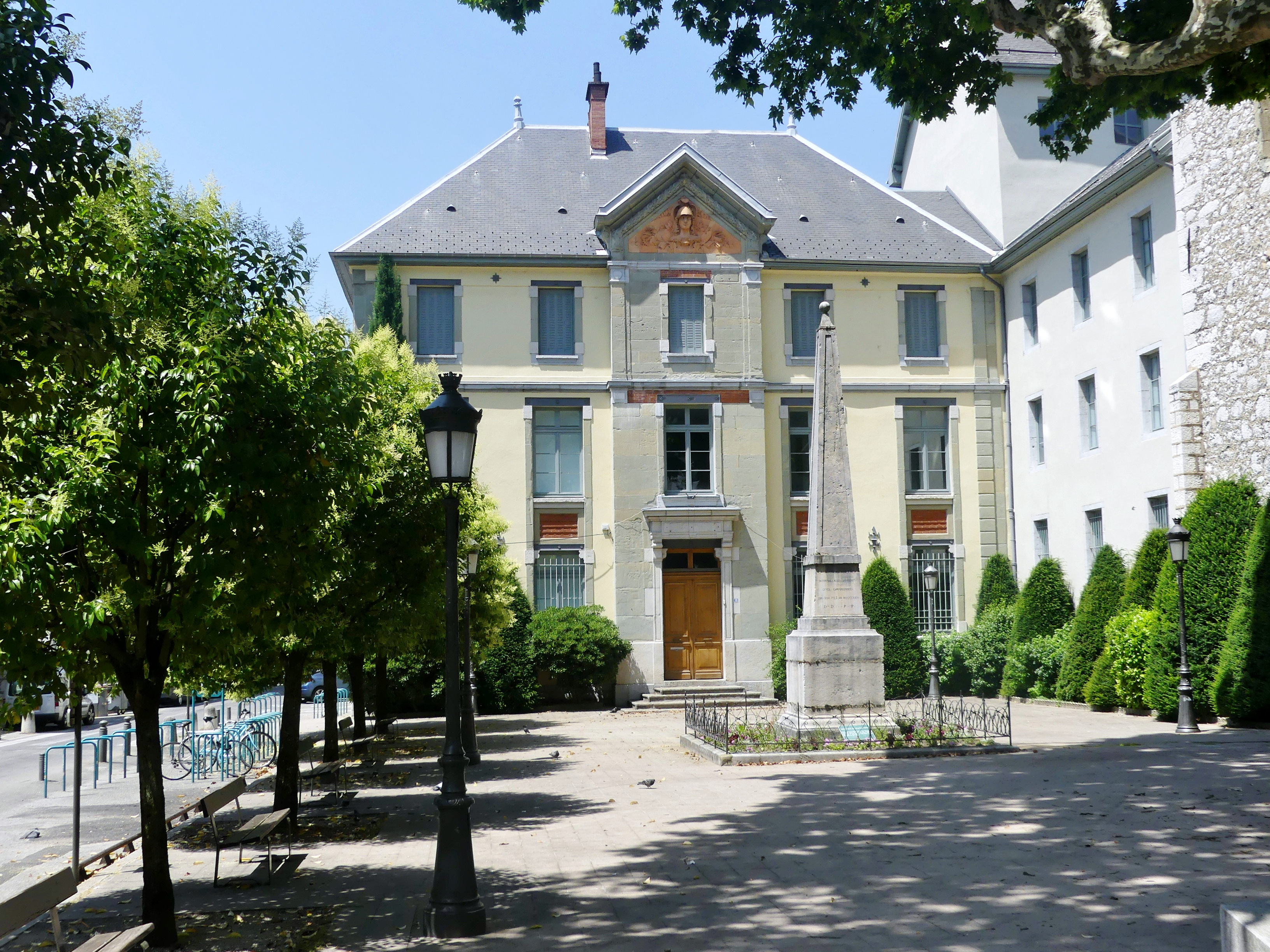 Sight of the obelisk in front of the historical building of Lycée Vaugelas high school, in Chambéry, Savoie, France.